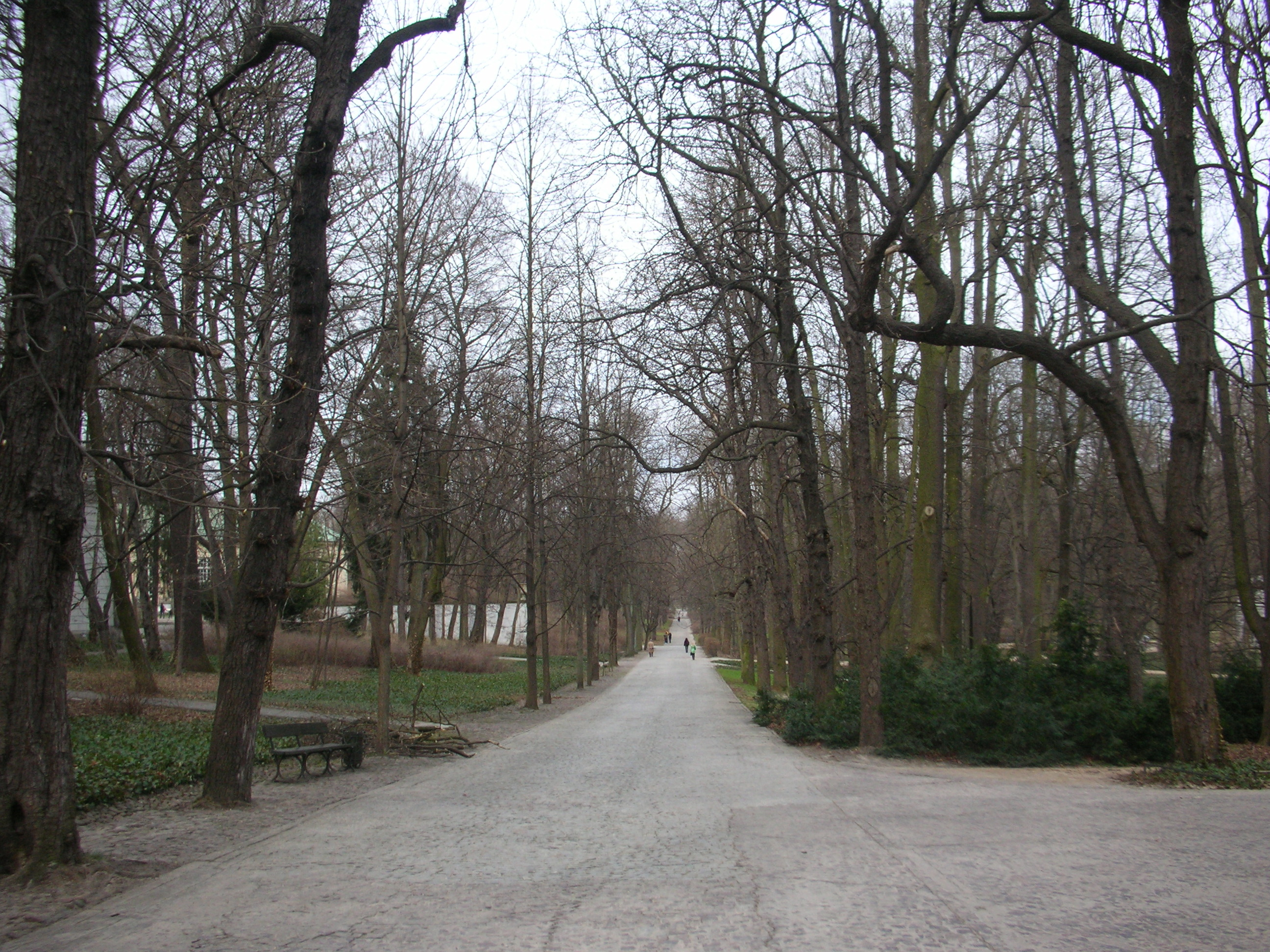 An avenue of the Lazienki Park in Warsaw